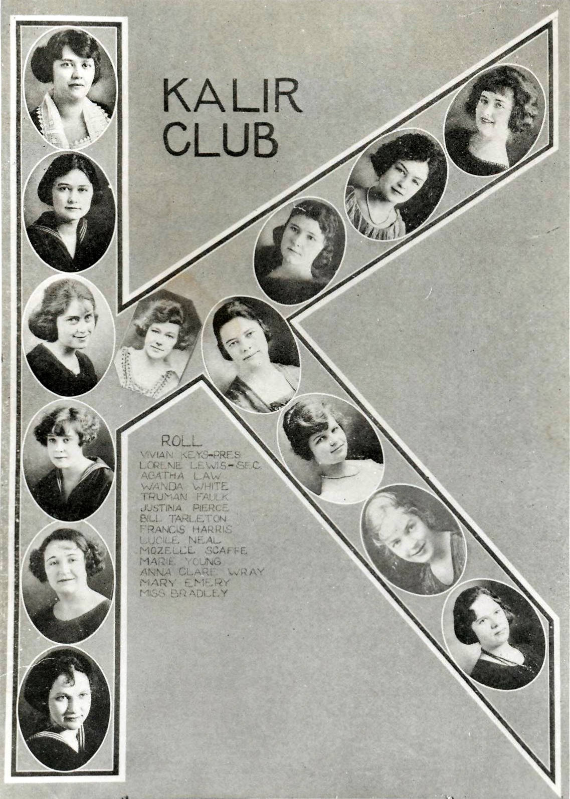 Photo collage of Kalir Club members, created for the 1923 edition of The Locust. Organized on February 3, 1920, the Kalir Club was one of many popular campus women’s clubs. In 1959, the club received a charter from Alpha Delta Pi. Pictured: Vivian Keys, Lorene Lewis, Agatha Law, Wanda White, Truman Faulk, Justina Pierce, Bill Tarleton, Francis Harris, Lucile Neal, Mozelle Scaffe, Marie Young, Anna Claire Wray, Mary Emery, Miss Bradley.